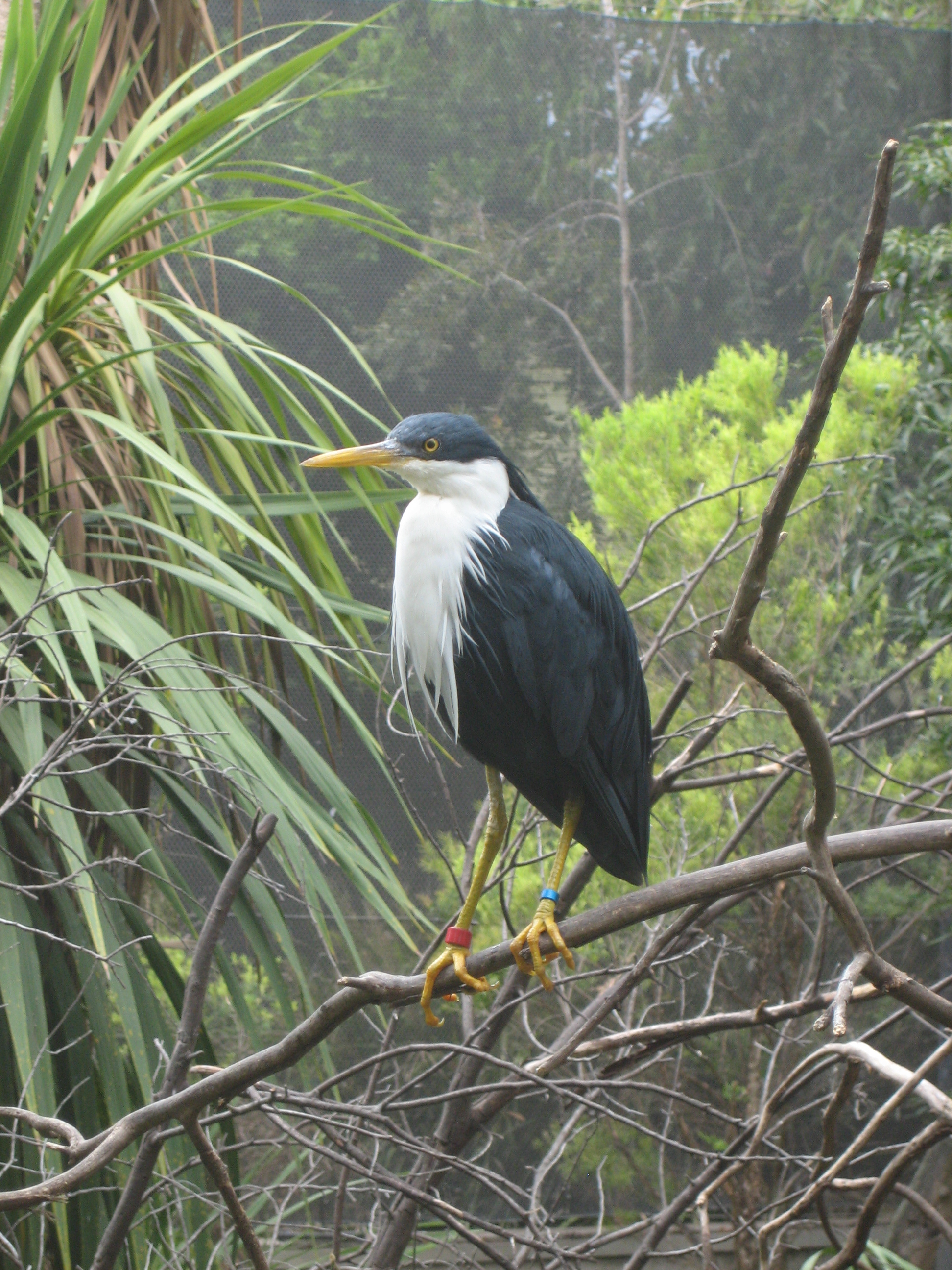 Picture of a Pied Heron in the Adelaide Zoo, taken by me, December 2007.